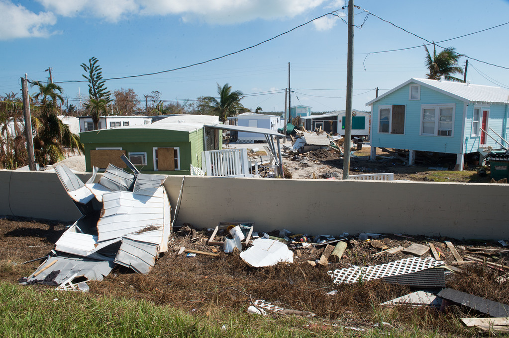 Remains of Hurricane Irma's damage in Marathon, Florida on Sunday, September 17, 2017. PHOTO BY J.T. BLATTY / FEMA